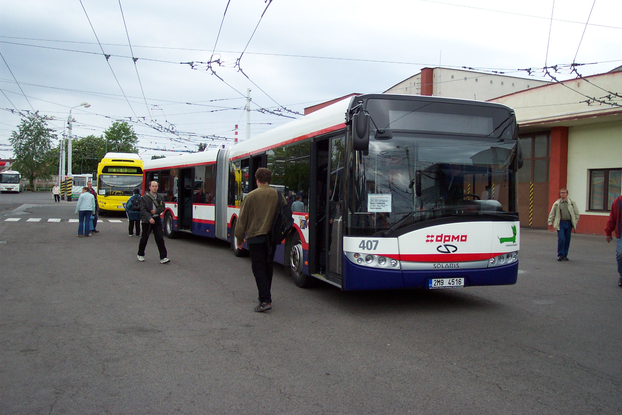 Polish bus Solaris Urbino 18 Mk3 (#407) at the 55 years of trolleybus transport in Pardubice. Year build 2006. Dopravní podnik města Olomouce company.